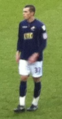 Marquis playing against Crystal Palace, 1 Jan 2011